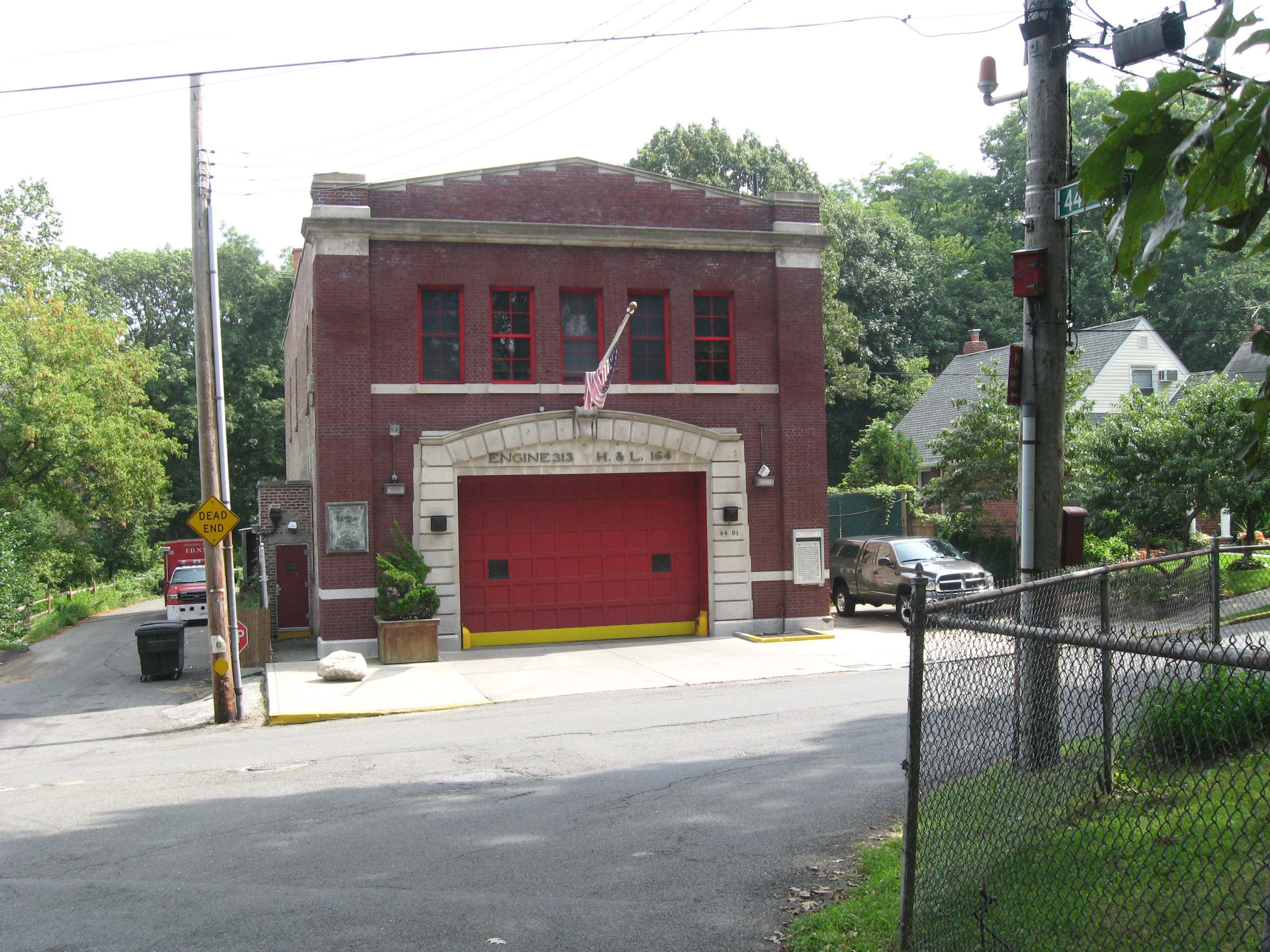 Looking east along 44th Avenue at 244th Street and Engine 333 firehouse in Douglaston, Queens on a partly cloudy late morning. ZIP 11463.